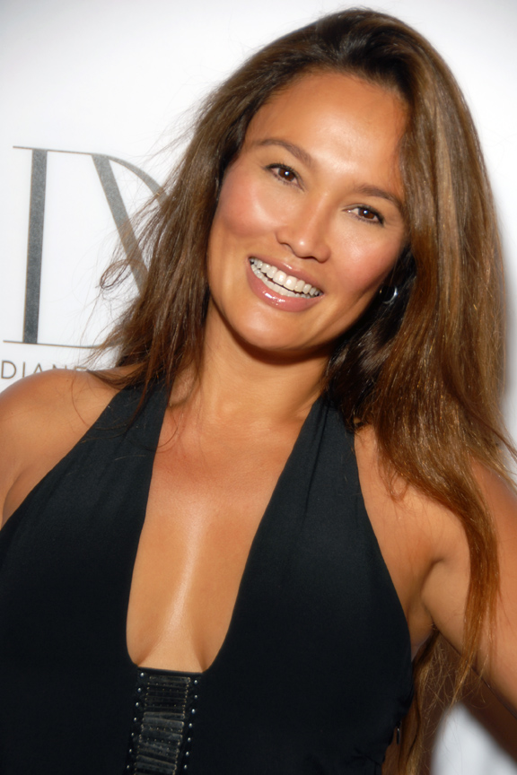 attending "Susan G. Komen's 8th Annual Fashion For The Cure" event - Hollywood, CA on Sept. 24, 2009 - Photo by Glenn Francis of